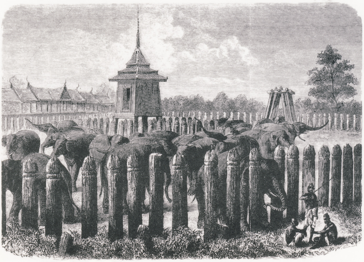 Elephant Kraal Ayutthaya — from the book by Henri Mouhot: "Travels in the Central Parts of Indo-China...", 1864.